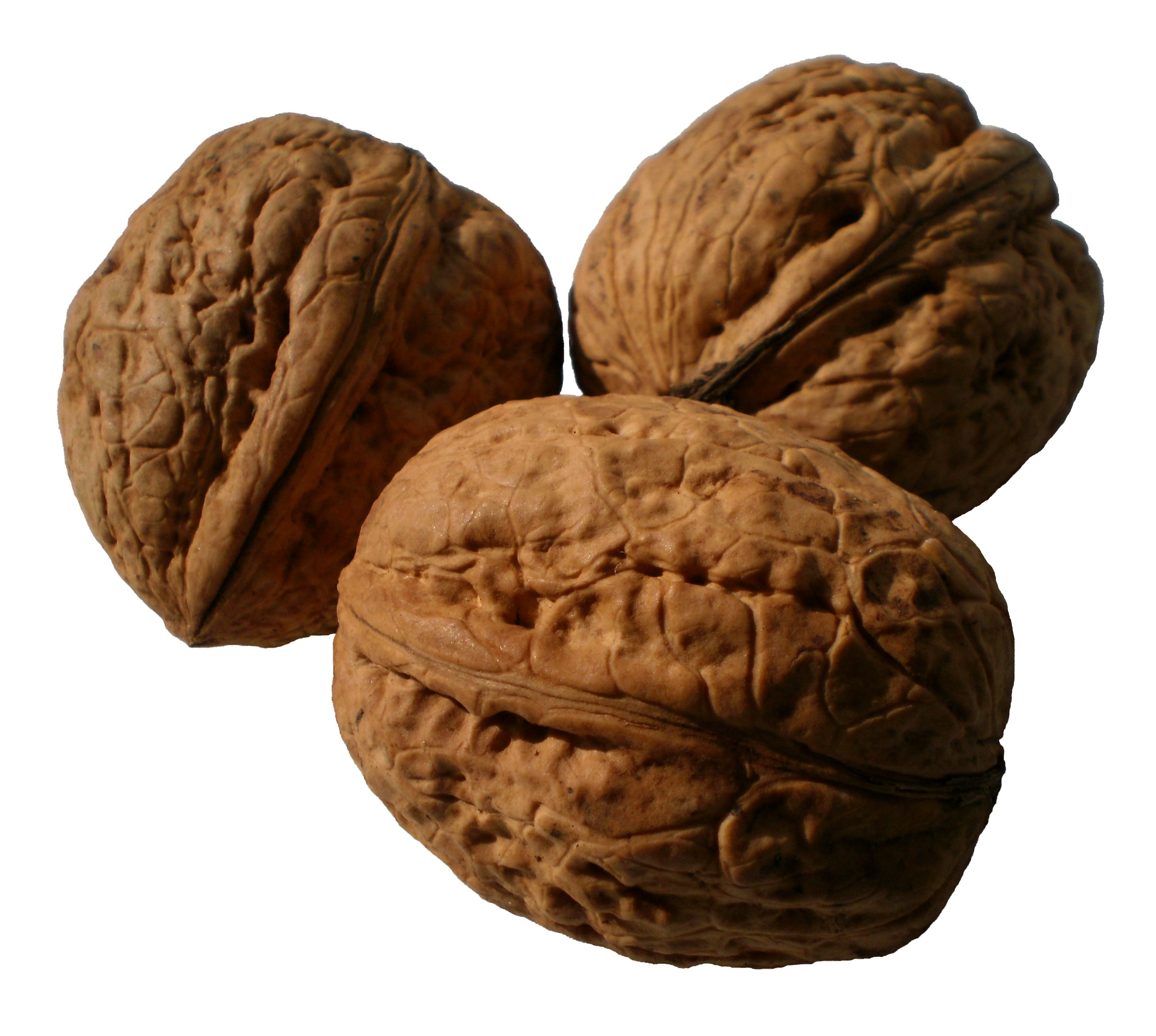 3 Walnuts